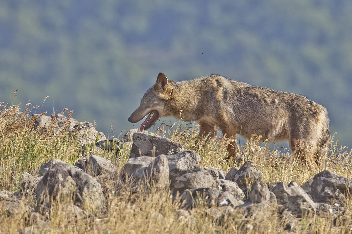 Picture of wolf in front of wildlife photography hide in the Natura 2000 site Rodopi - Iztochni BG0001032